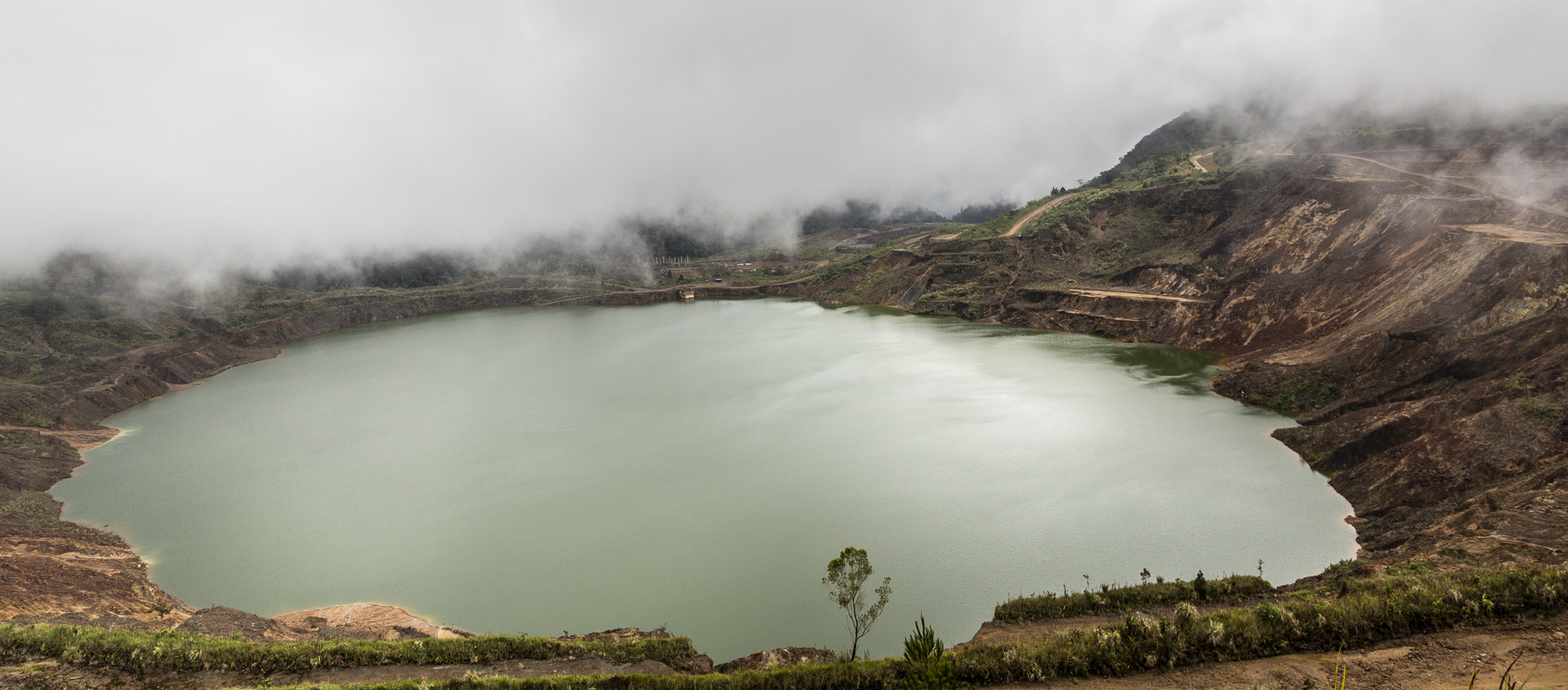 Ranau, Sabah: Mamut Copper Mine, view from crater rim